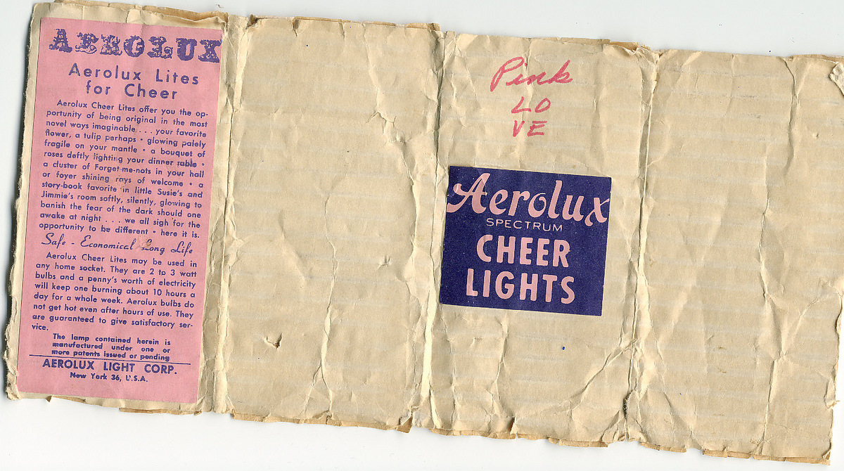 Aerolux box purchased in 1978 by Eric Allen from the Hester House in Silver City, NM. Price was about $5.